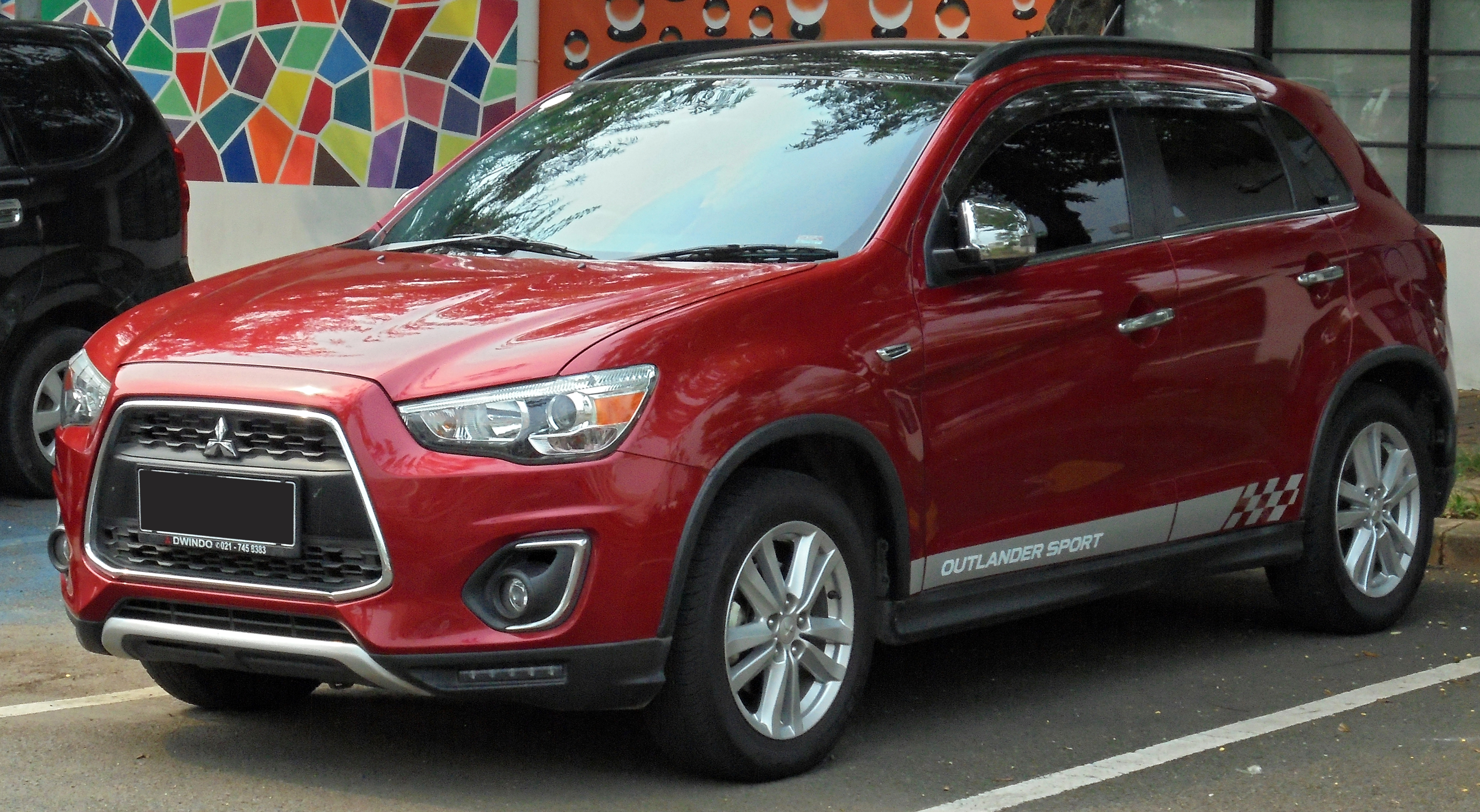 2017 Mitsubishi Outlander Sport PX Action 2.0 (GA2W)